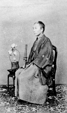 a Japanese man 遠藤謹助 (Endō Kinsuke)